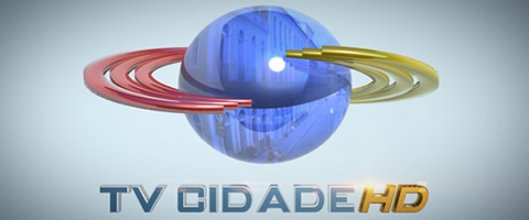 TV Cidade HD